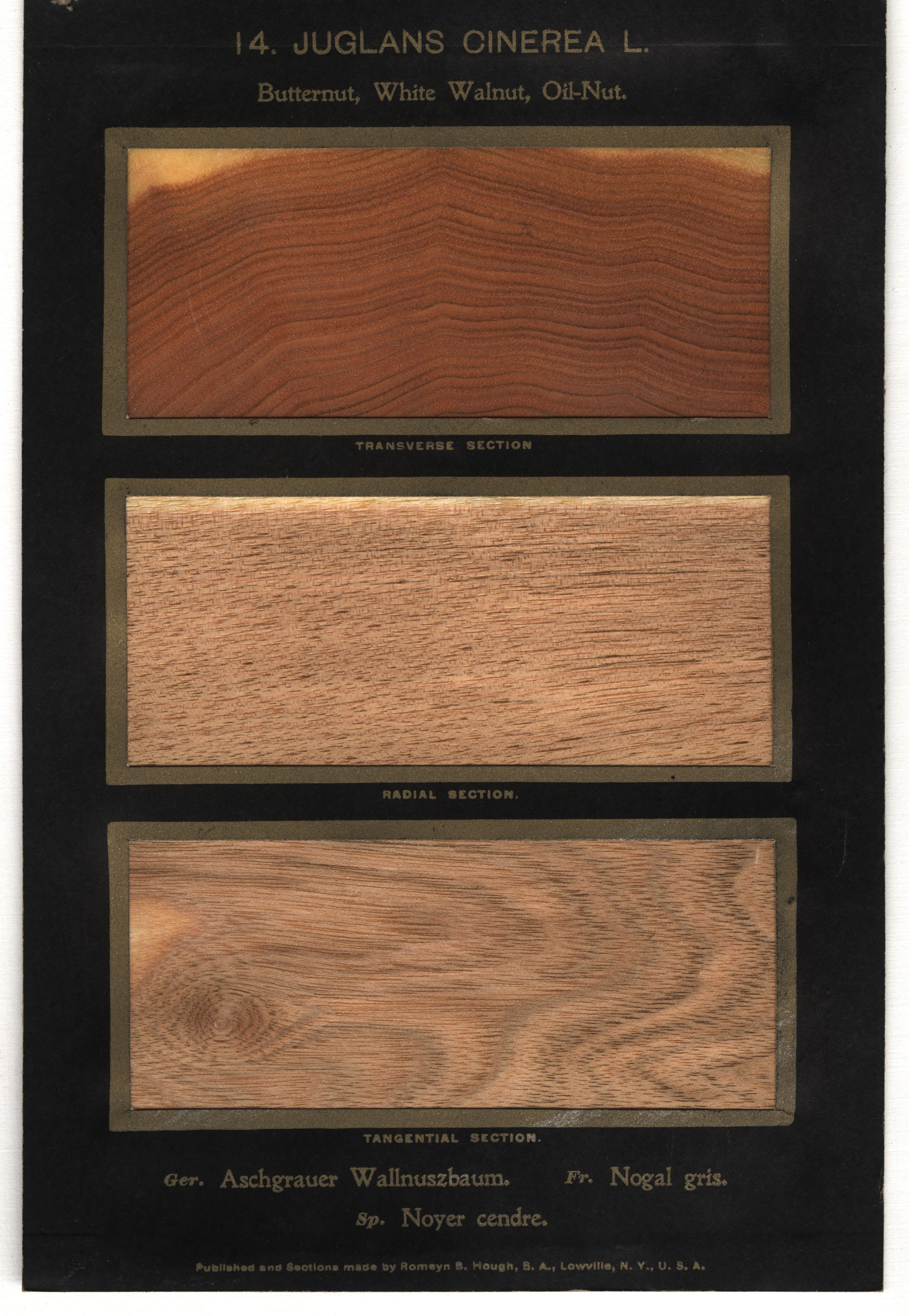 Cross-sections of Juglans cinerea from The American Woods